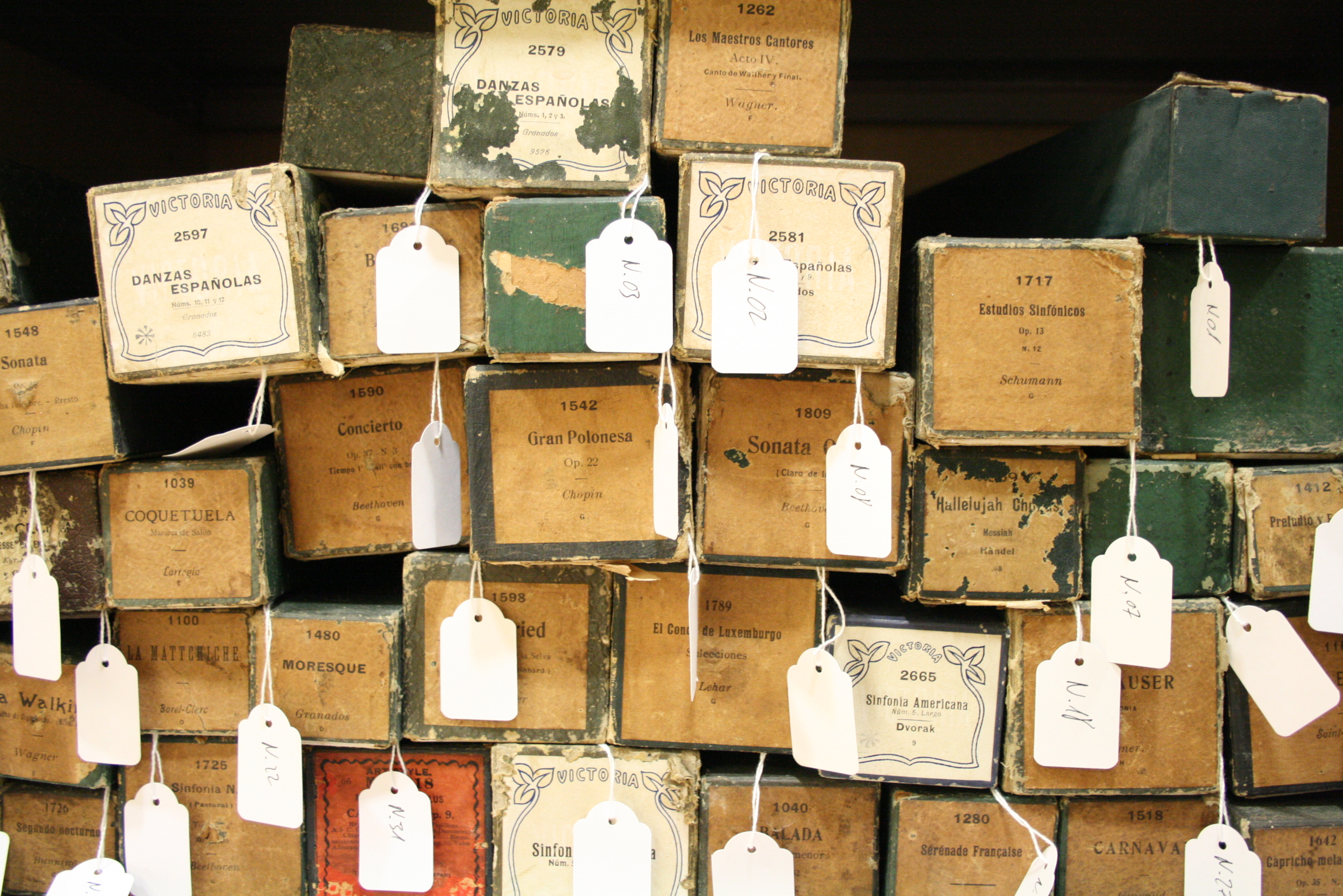 Piano rolls at Museu de la Música de Barcelona